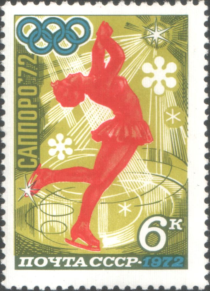 USSR stamp